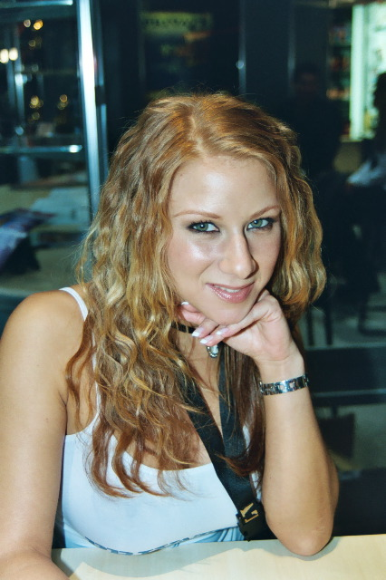 Julia Taylor AEE 2003